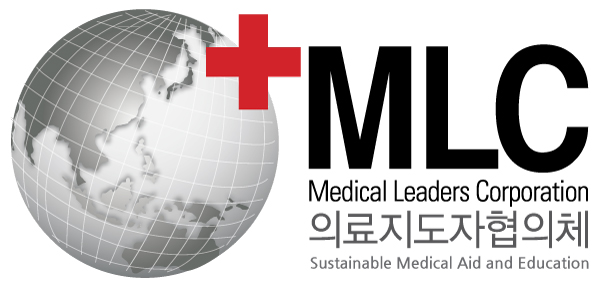 Medical Leaders Corporation LOGO